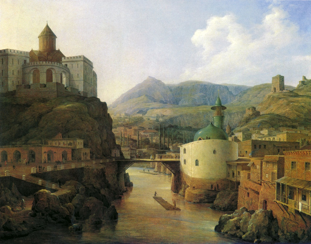 View of Tiflis by a Russian painter Nikanor Grigorievich Chernetsov, 1839